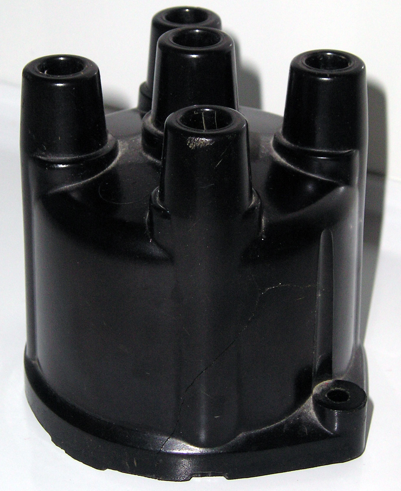 Distributor cap. At the center is a spring loaded carbon button that bears upon the rotor. The number of distribution points (in this case 4) is determined by the number of cylinders in the engine.